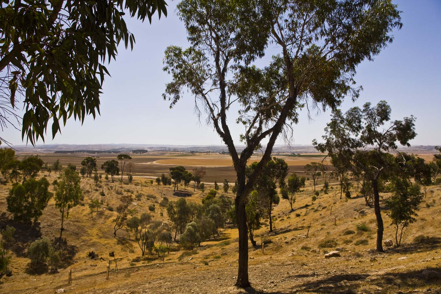 area shot